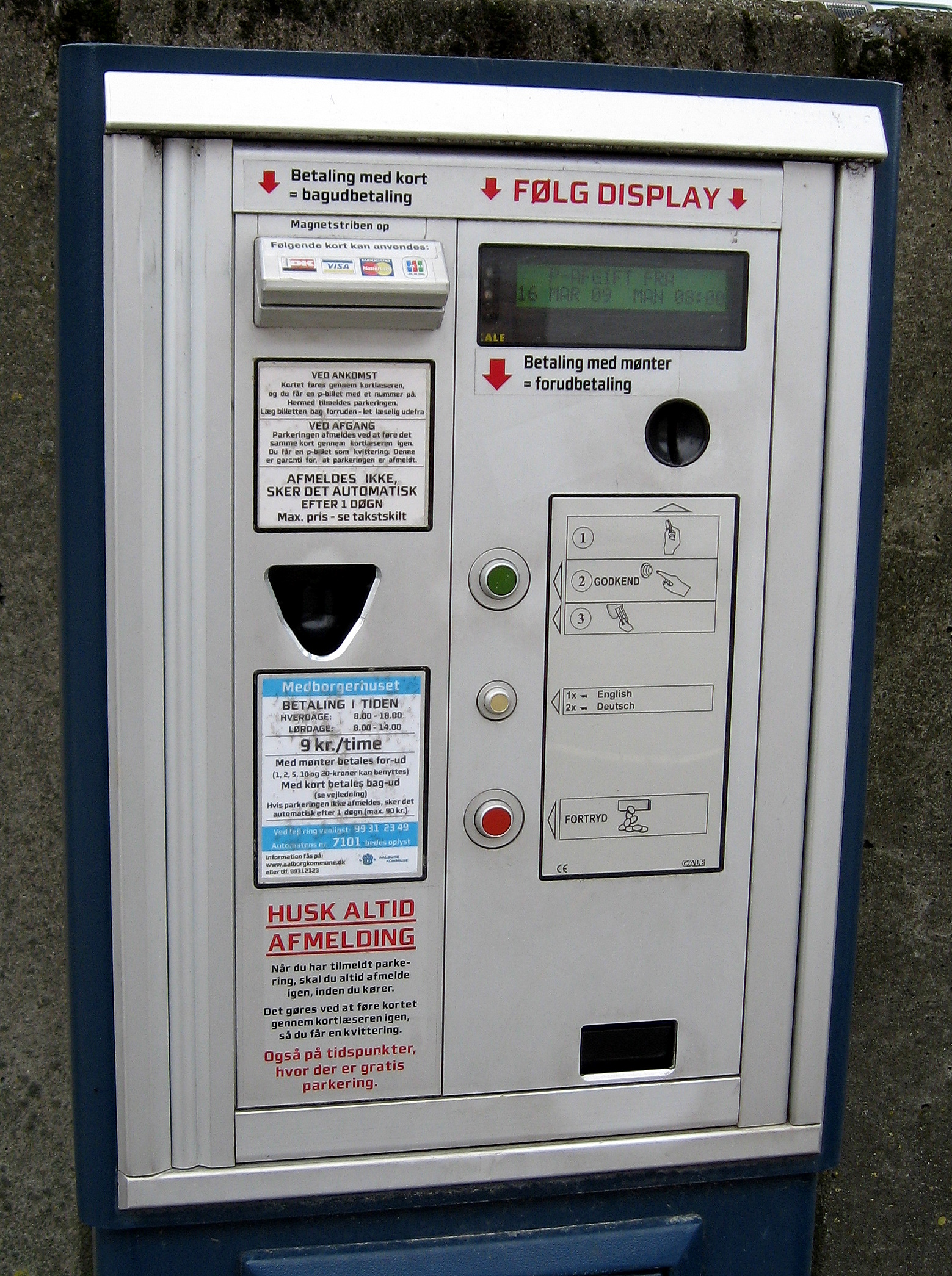 A parking meter in Denmark